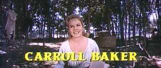 Cropped screenshot of the film How the West Was Won